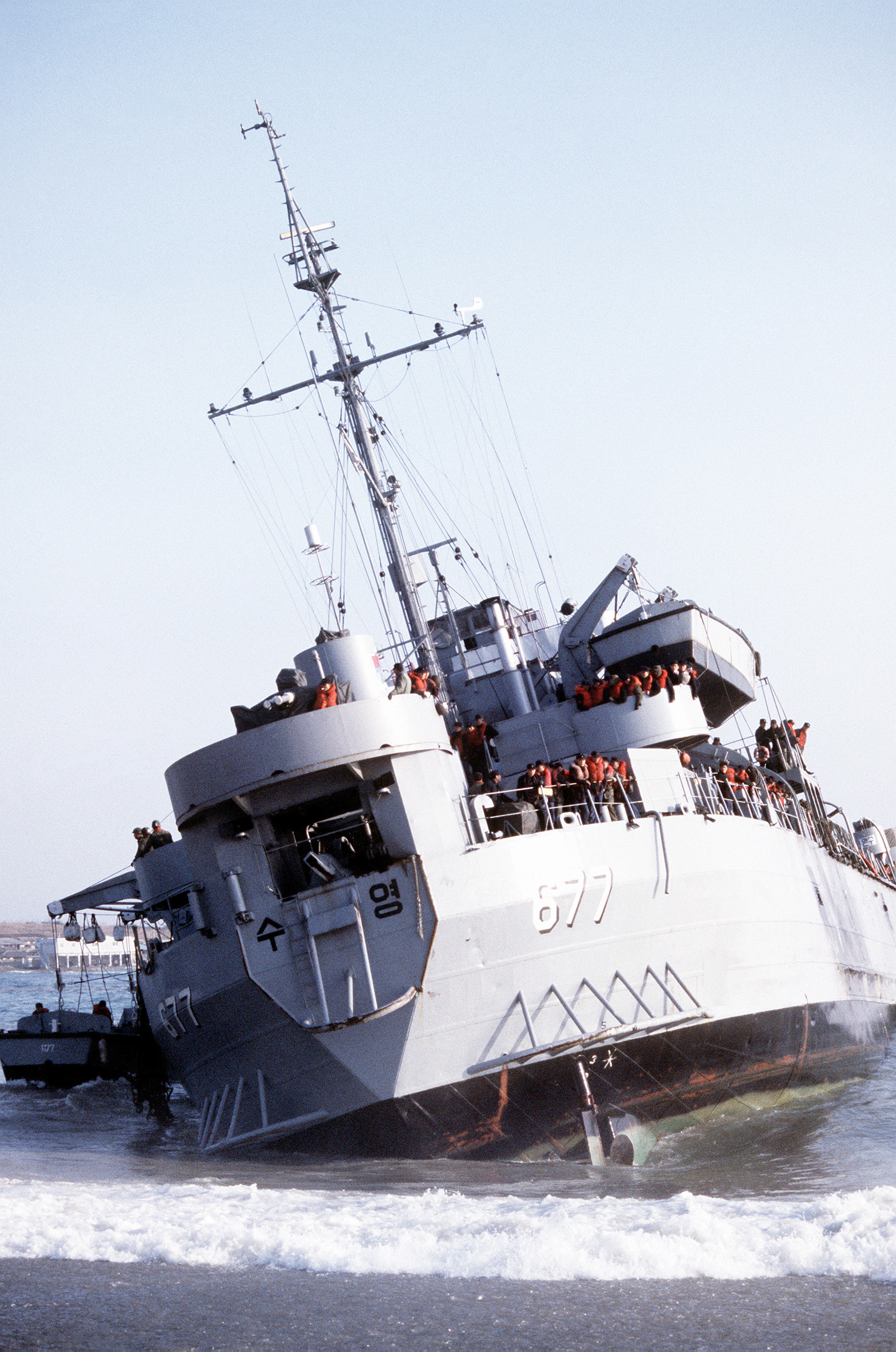 National Archive# NN33300514 2005-06-30 Released to Public ID: DM-ST-83-08408 Service Depicted: Other Service Operation / Series: TEAM SPIRIT `83 A stern view of a Republic of Korea tank landing ship [ROKS Suyeong (LST 677)] that ran aground on the beach during Exercise Team Spirit '83.